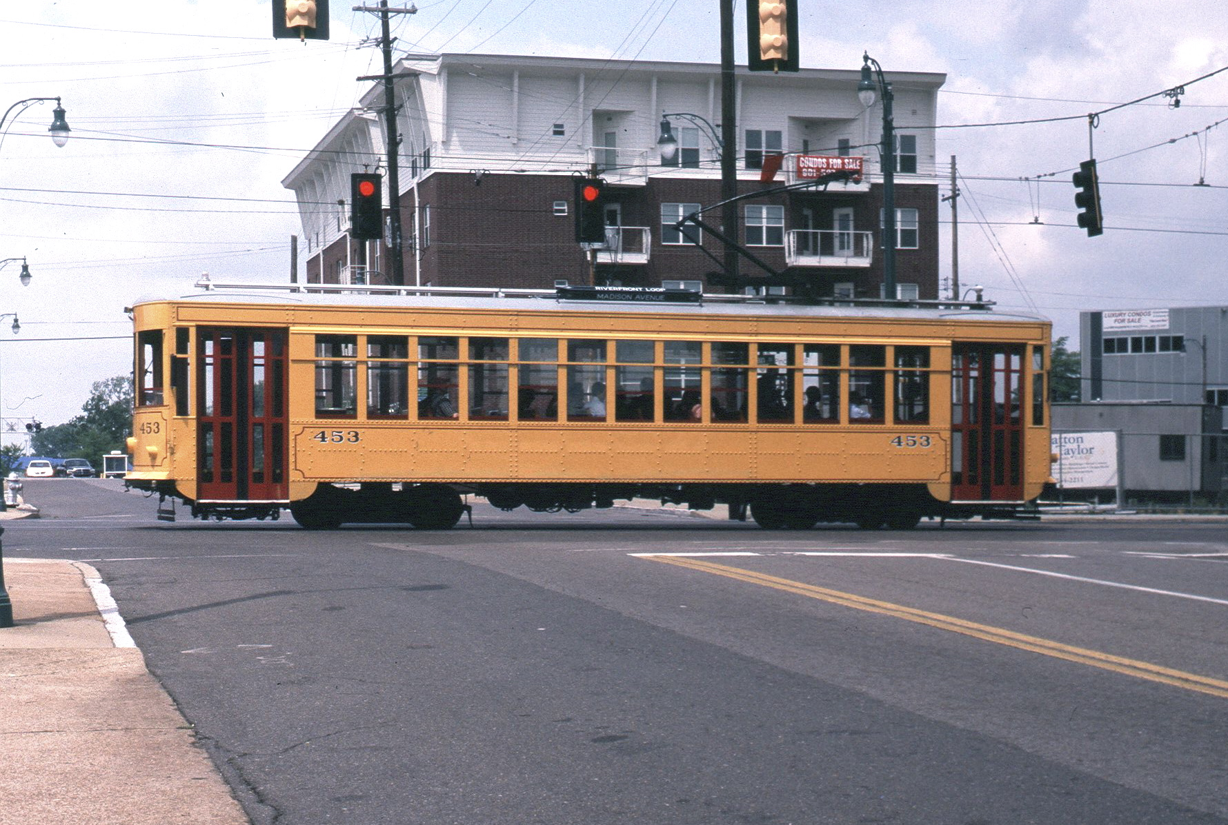 Gomaco tram in Memphis